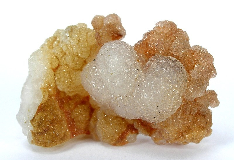 Willemite Locality: Tsumeb Mine (Tsumcorp Mine), Tsumeb, Otjikoto (Oshikoto) Region, Namibia (Locality at ) Size: 3.2 x 2.3 x 1.3 cm. This is a near-floater of willemite with several layers of contrasting colored spheres. The top level has sparkling, lustrous and translucent, white spheres of willemite, to 5mm across. A little beauty! Ex. Charlie Key Collection.